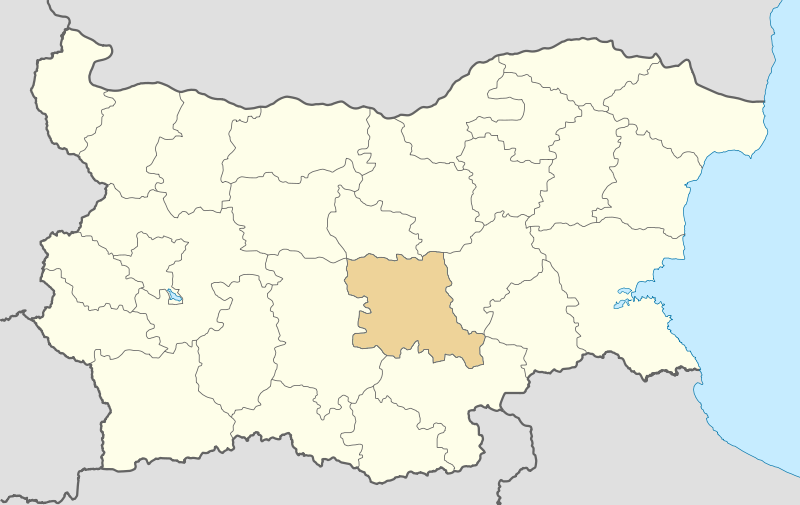 Location map of Bulgaria Equirectangular projection, N/S stretching 130 %. Geographic limits of the map: * N: 44.4° N * S: 41.1° N * W: 22.1° E * E: 28.9° E